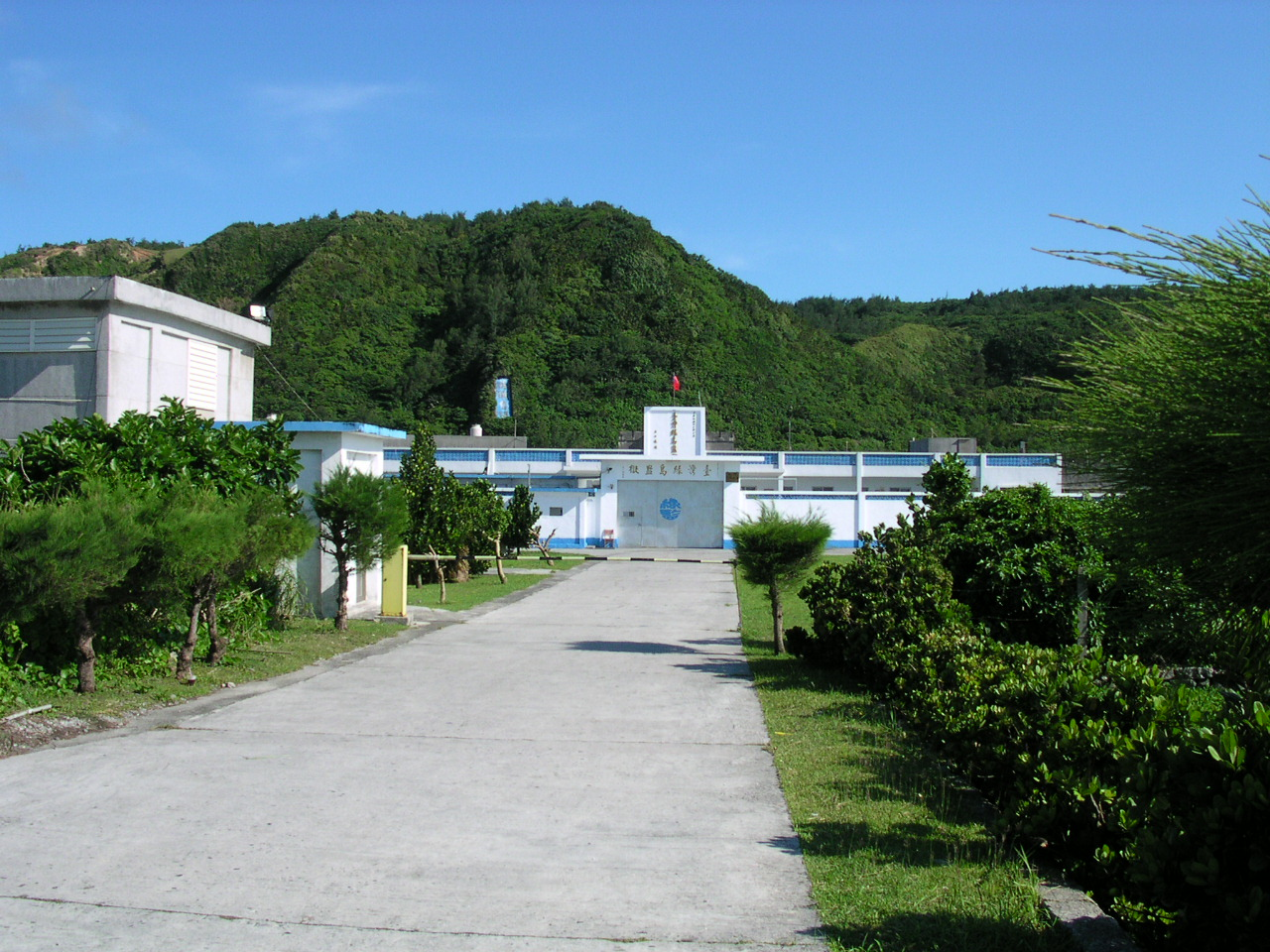 this photo taken by vegafish